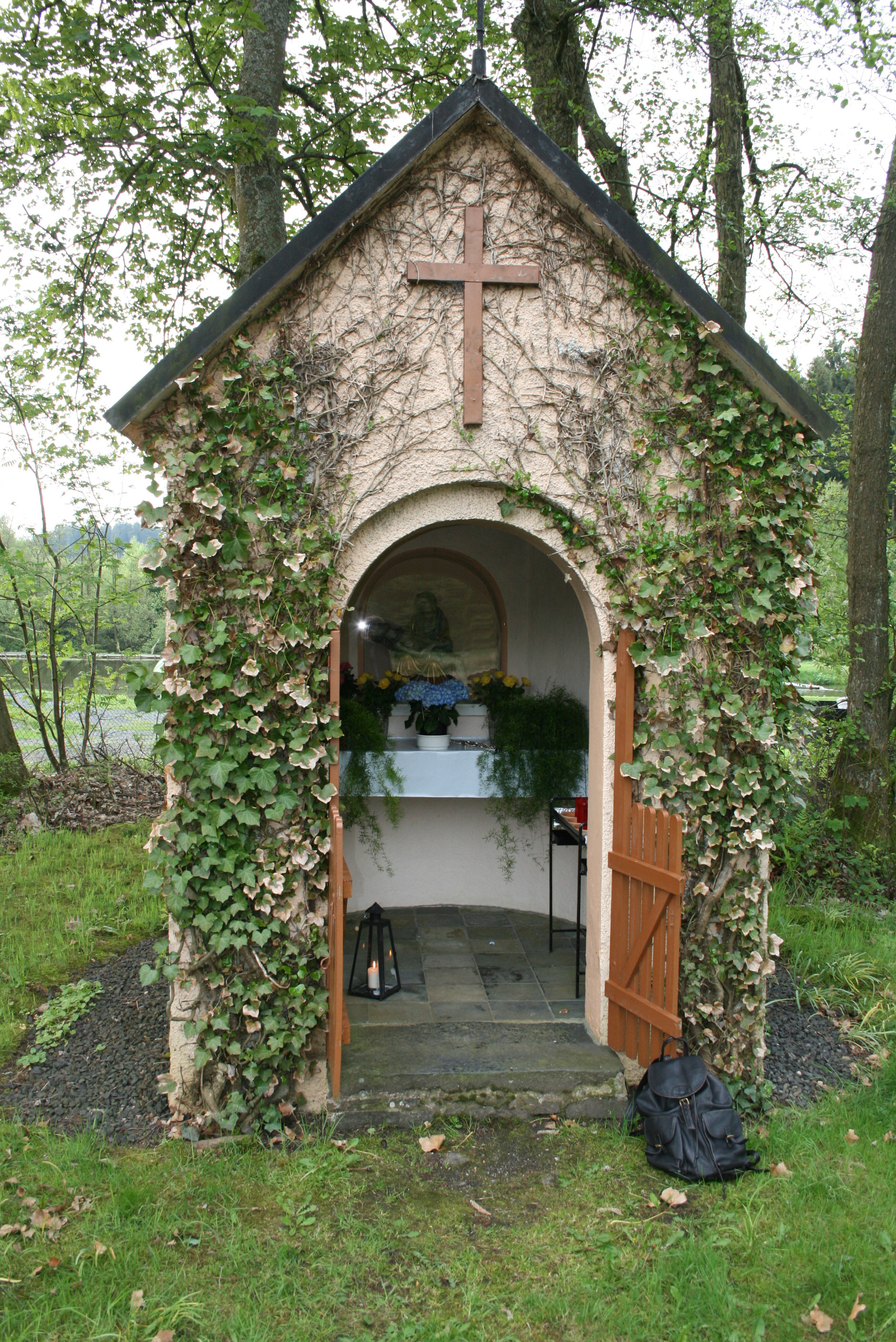 Am Alterklosterhof erinnert eine kleine Kapelle an den ersten Gründungsort des Klosters